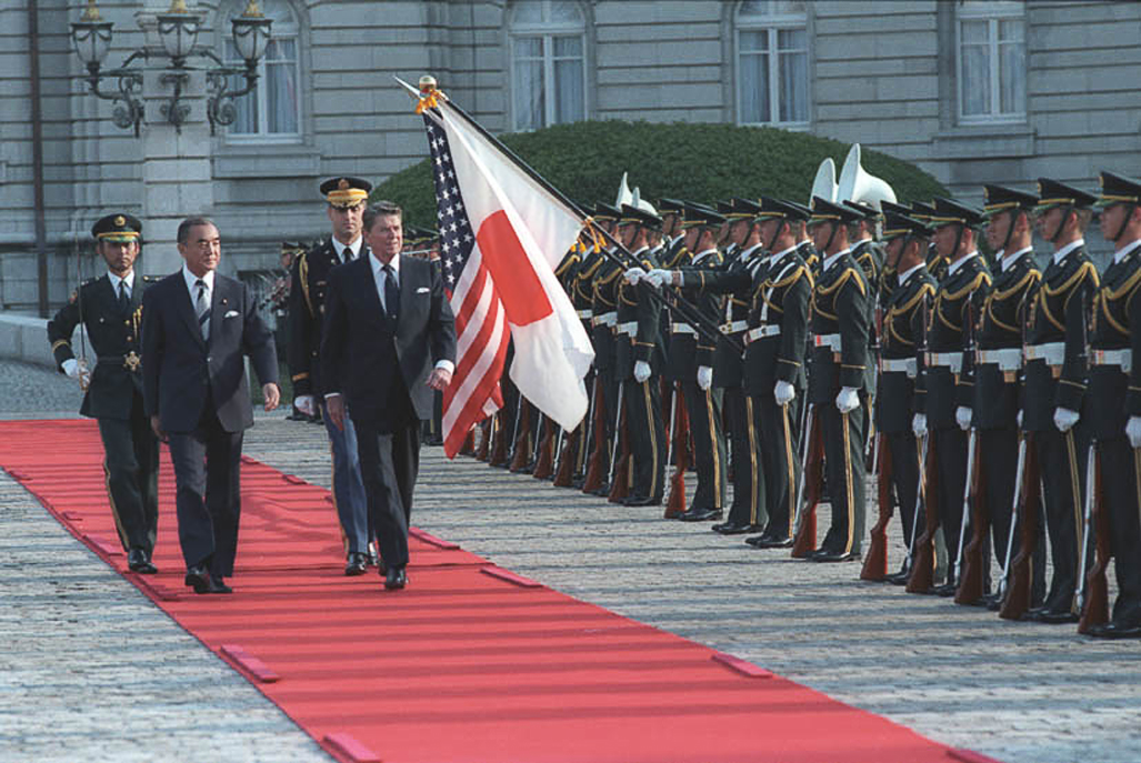 Nakasone and President Reagan reviewing troops at an Arrival Ceremony at Palace in Tokyo, Japan May 4, 1986.中文（台灣）: 1986年5月4日，日本首相中曾根康弘與美國總統隆納德·雷根於東京皇居迎賓儀式中共同校閱儀隊。